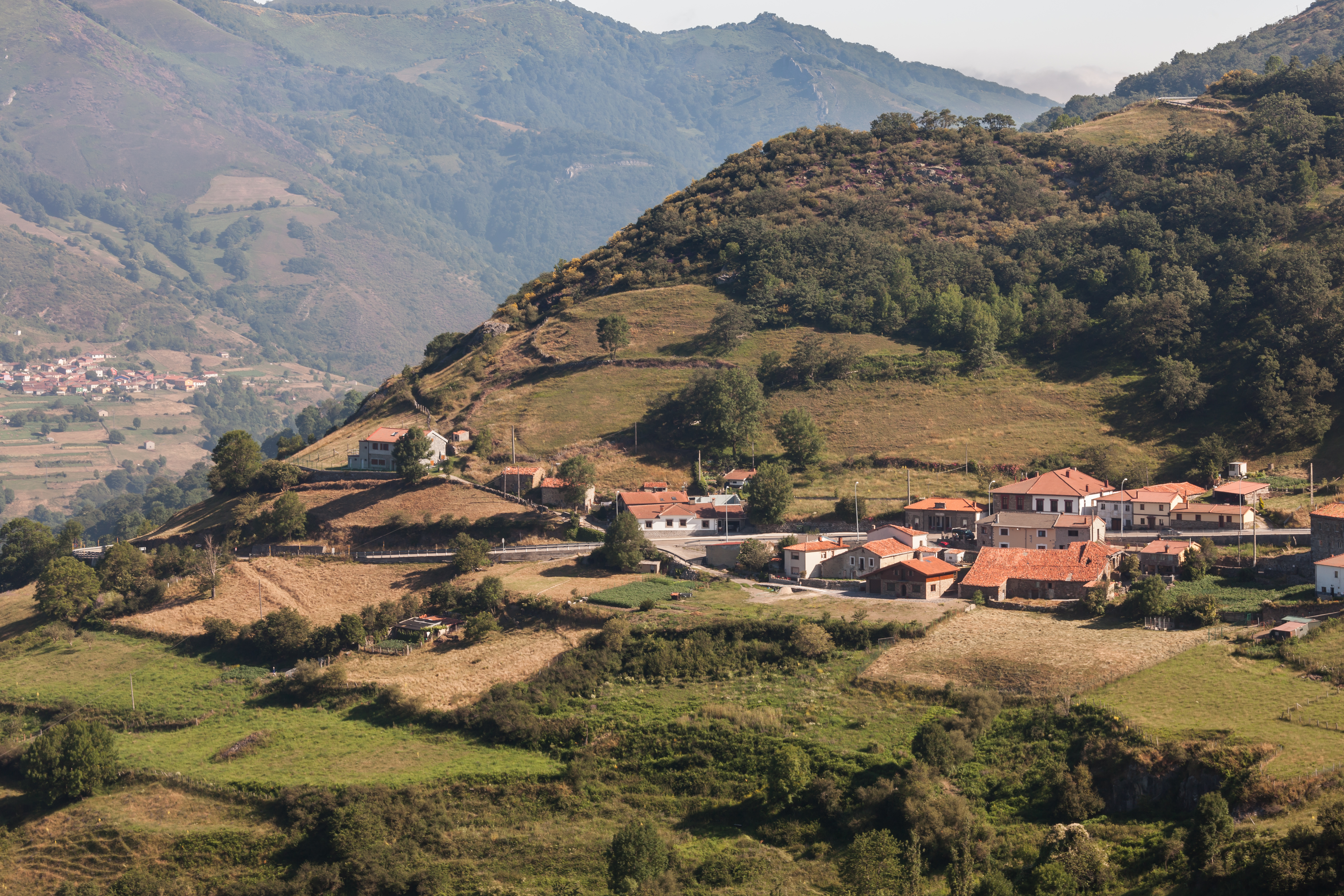 Pajares, Asturias, Spain